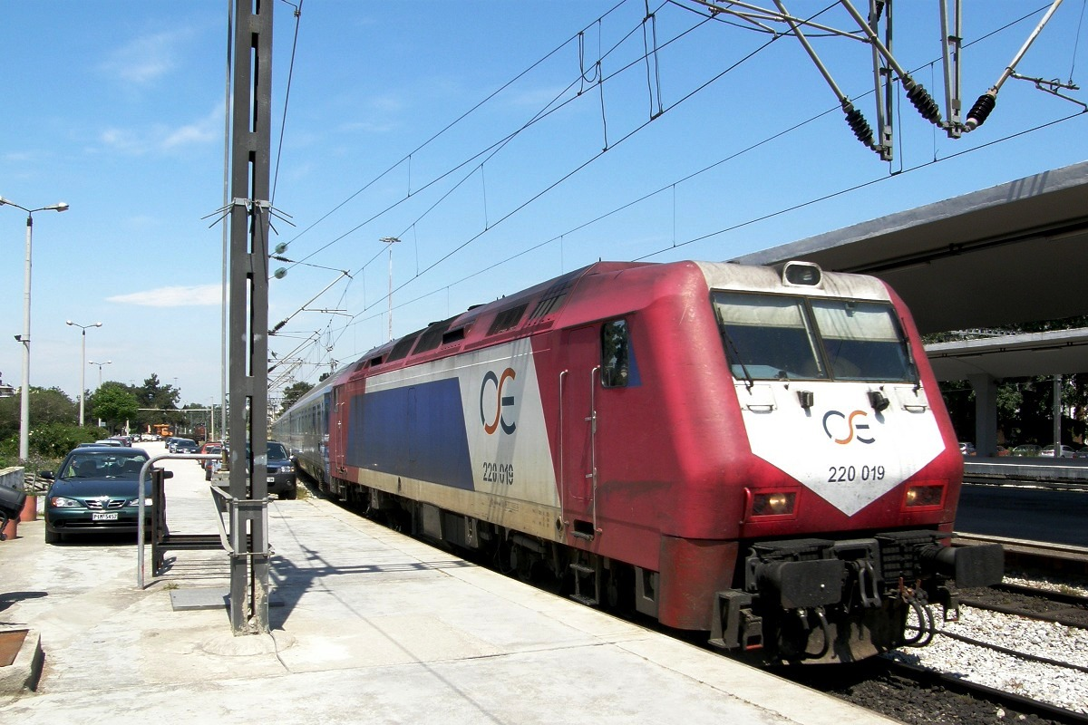 Greece: ADtranz DE2000 diesel locomotive of OSE enters Thessaloniki station with IC50 express passenger train.